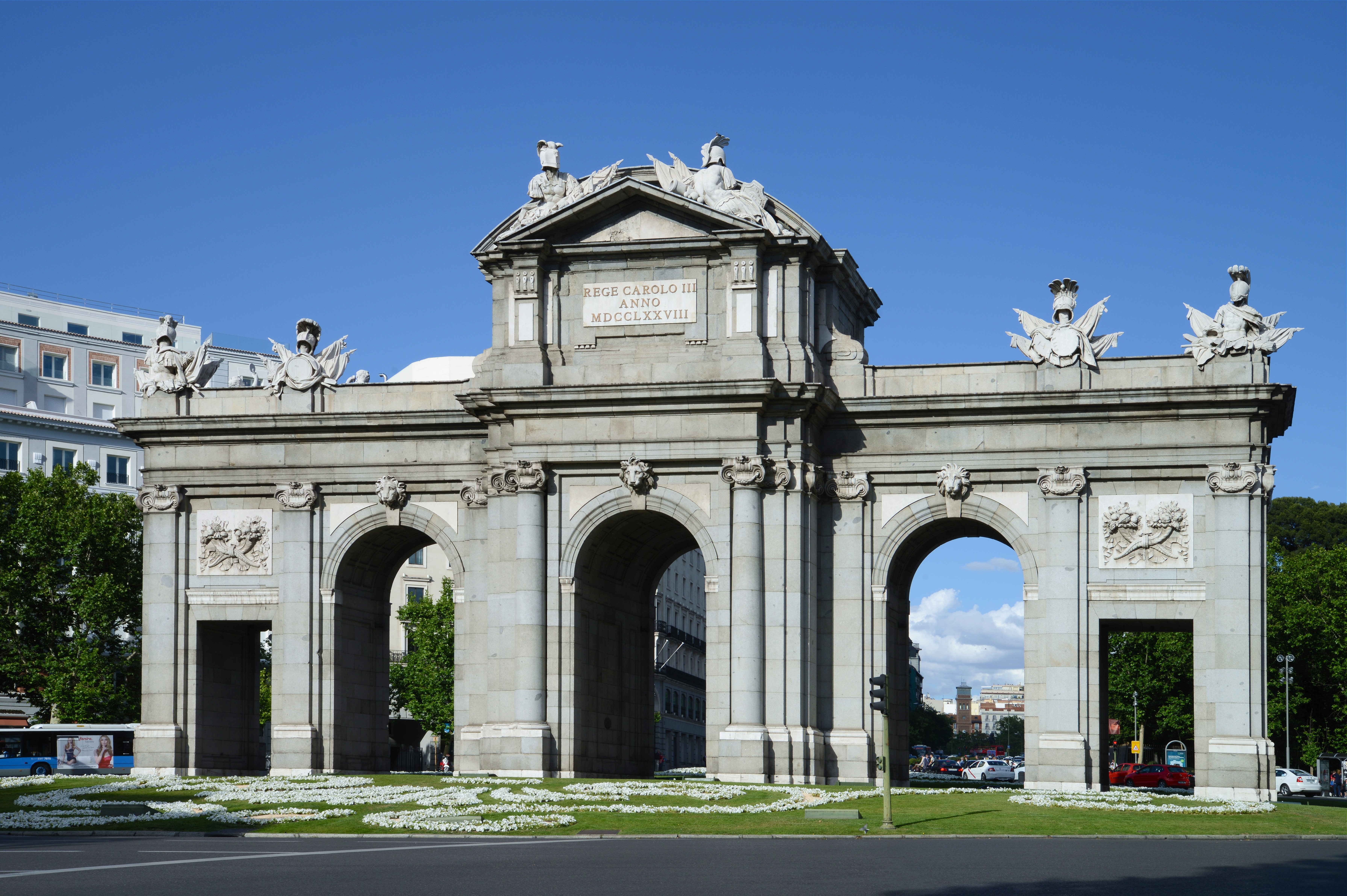 Gate of AlcaláGalego: Porta de Alcalá